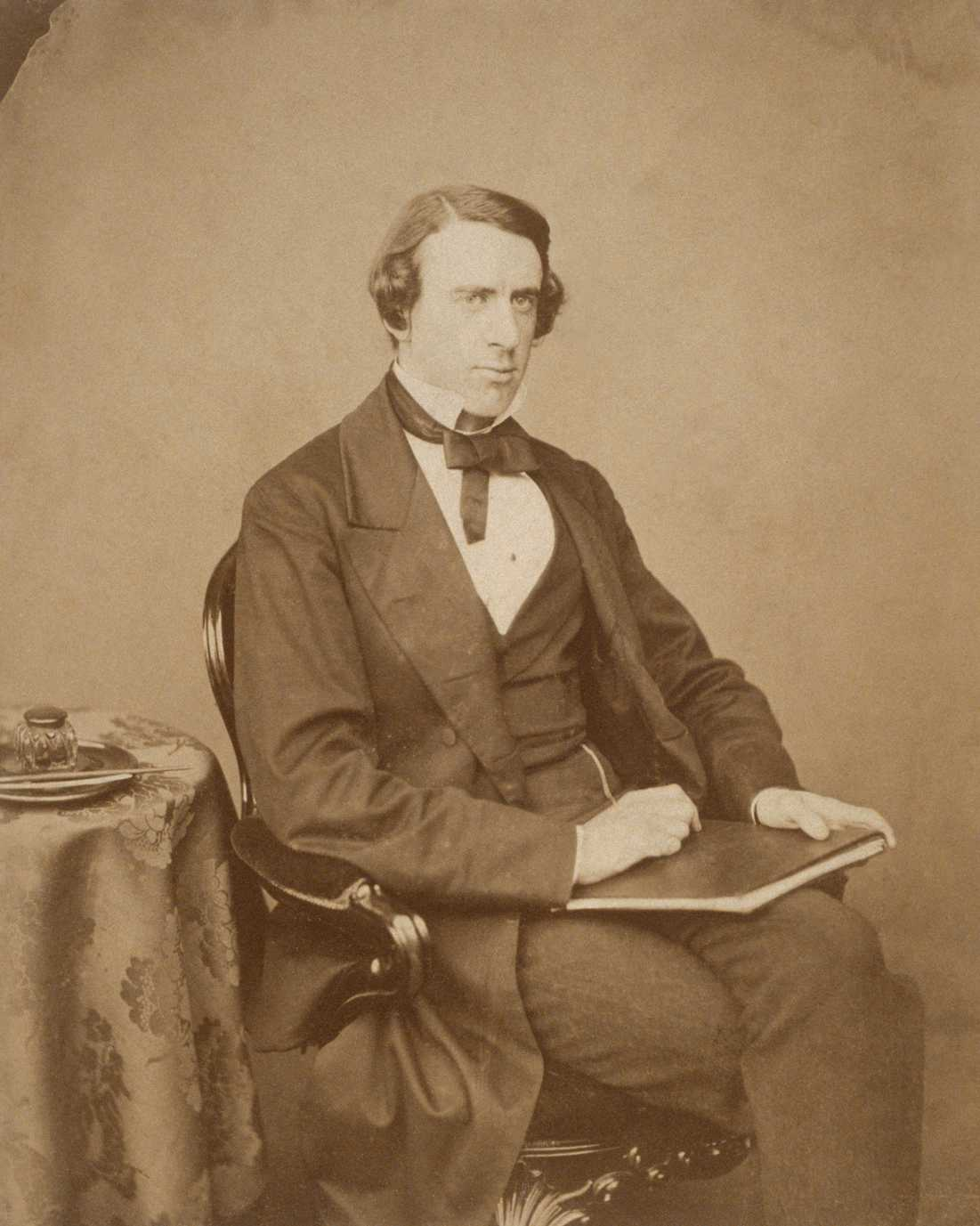 Sir Leslie Stephen (1832–1904) father of Virginia Woolf and Vanessa Bell c. 1860 (photographer unknown)